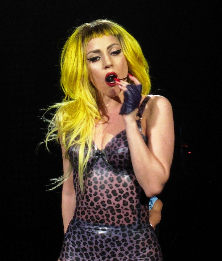 Lady Gaga performing at the Toronto stop of The Monster Ball Tour on March 12, 2011